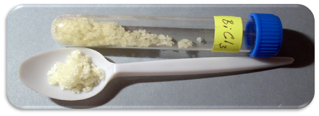 Chlorid bismutitý - BiCl3